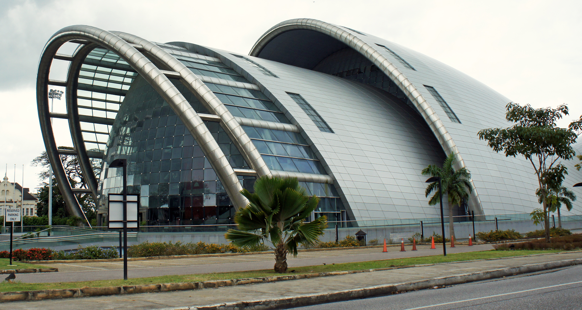 Academy for the Performing Arts, Port of Spain, Trinidad and Tobago